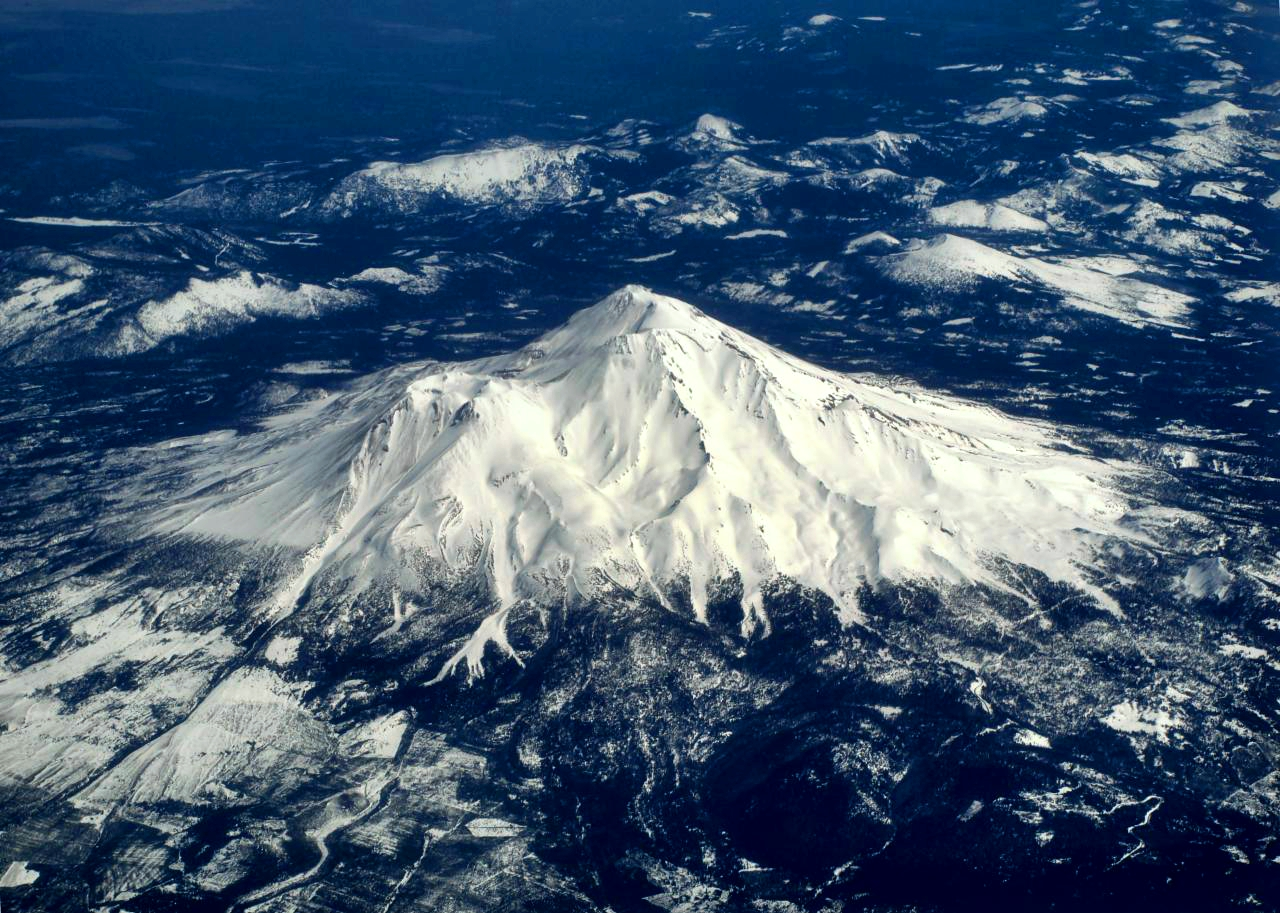 Mt Shasta, looking north-east, from approximately 30000 feet. In the original photo the view was somewhat obscured by haze. Some post-processing was performed to draw out the detail in the mountain and increase the contrast with the surrounding terrain.